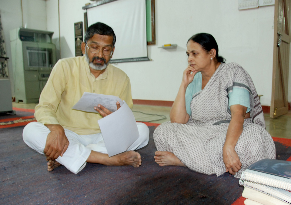 Dr. Abhay Bang and Rani Bang at SEARCH, Gadchiroli